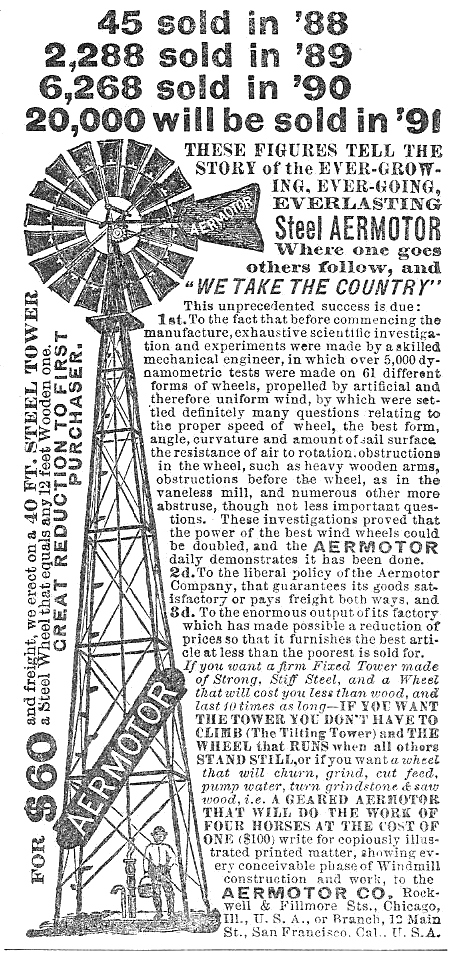 Aermotor Windmill Company ad 6,268 sold in 1890